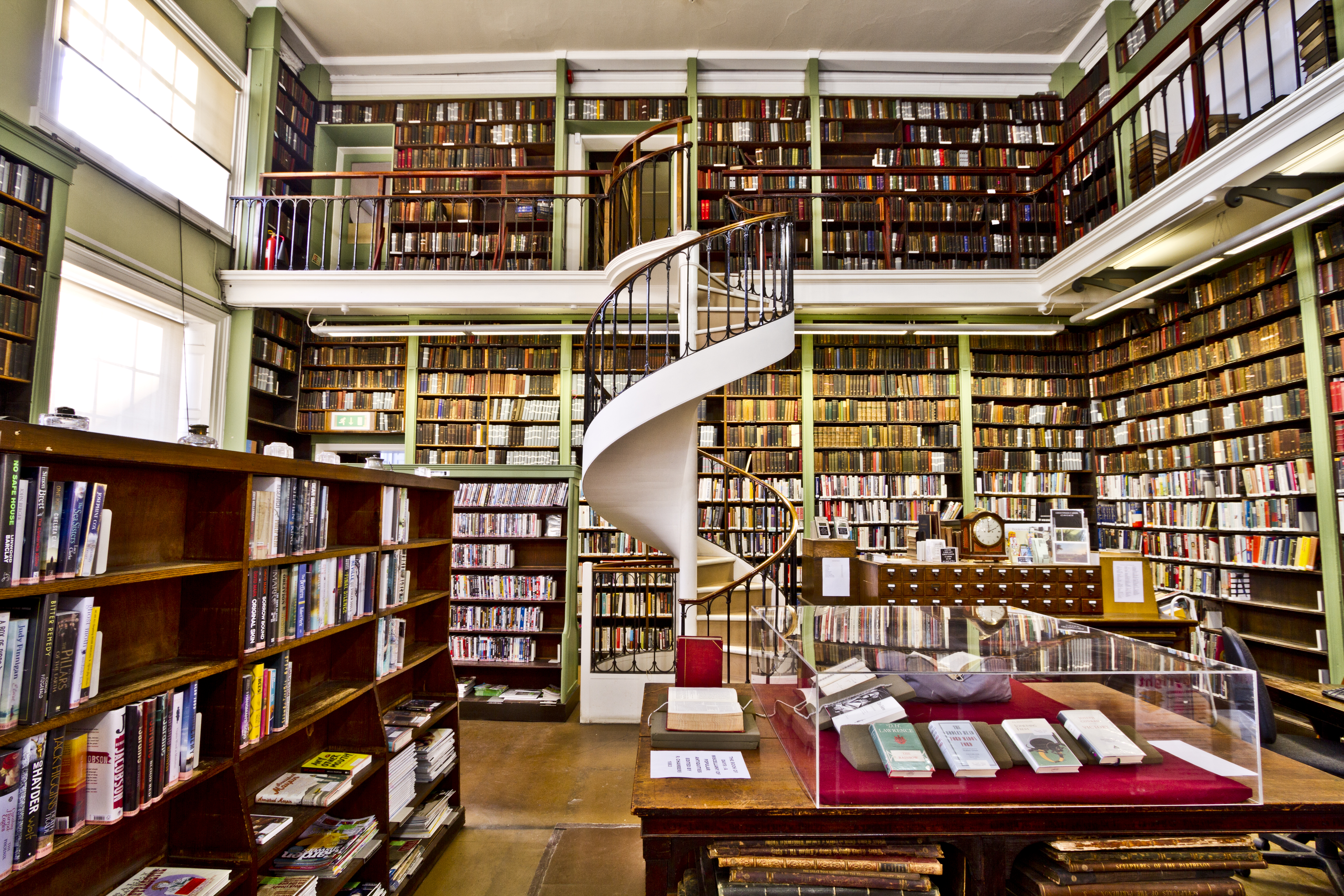 Here is a photograph from the Leeds Library. Located in Leeds, Yorkshire, England, UK.